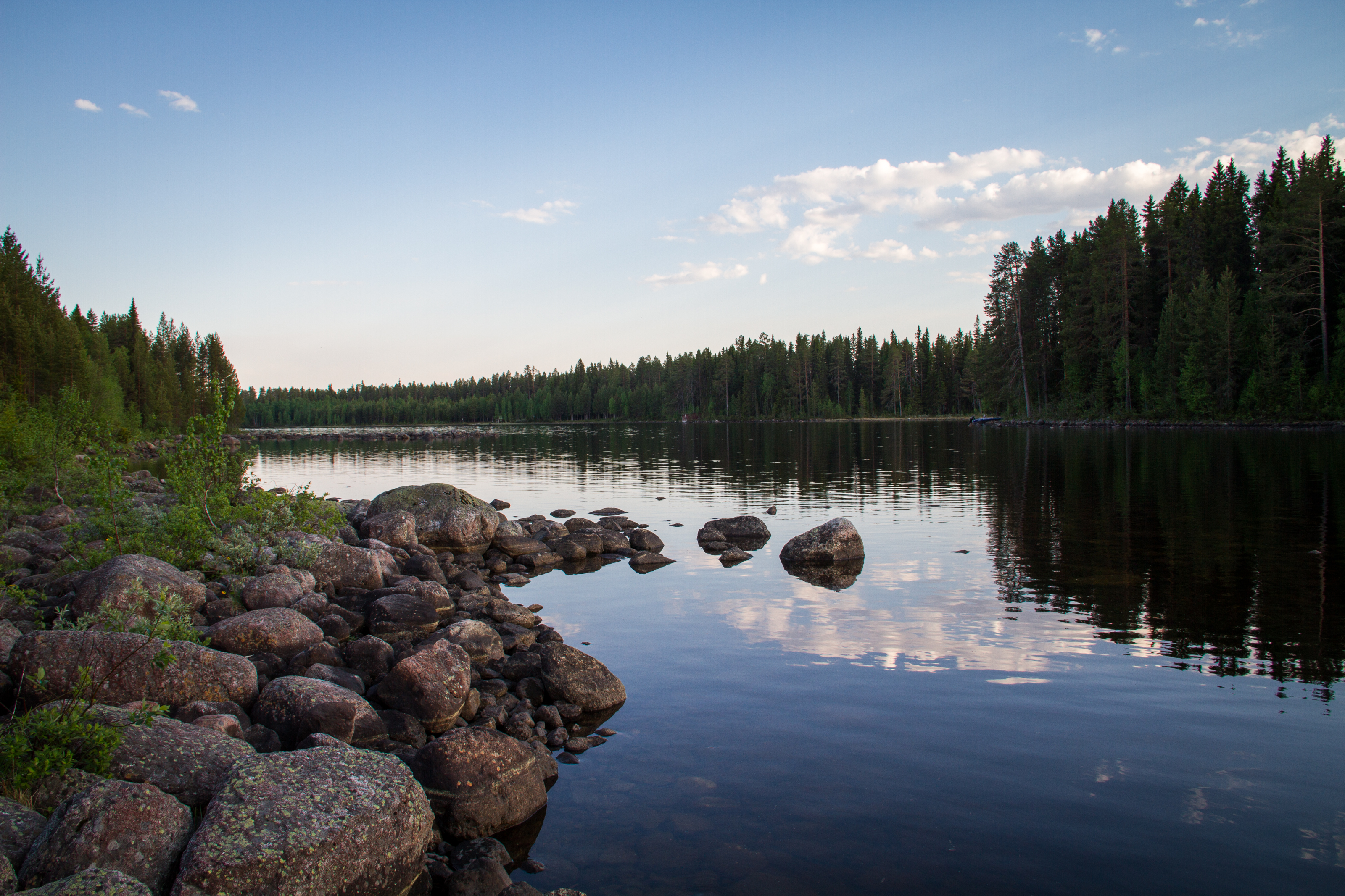 Umeälven at E45 in Storuman Municipality, Västerbotten County, Sweden.